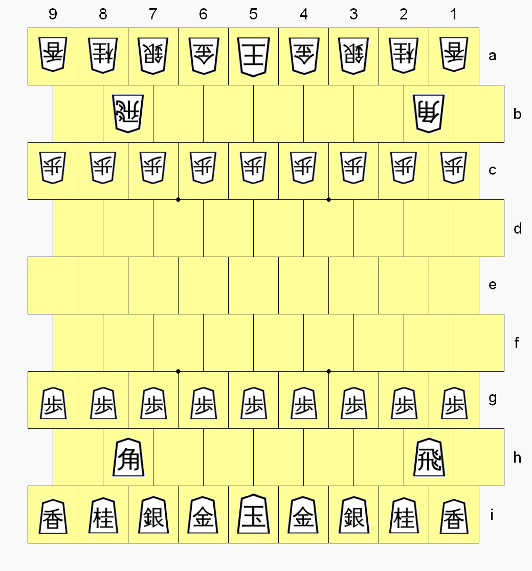 Using shogi pieces by User:Perey (Shogi.svg), but modified. All done in MS PAINT.